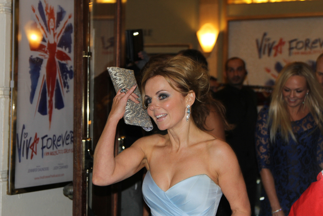 Geri Halliwell at the première of the Viva Forever musical